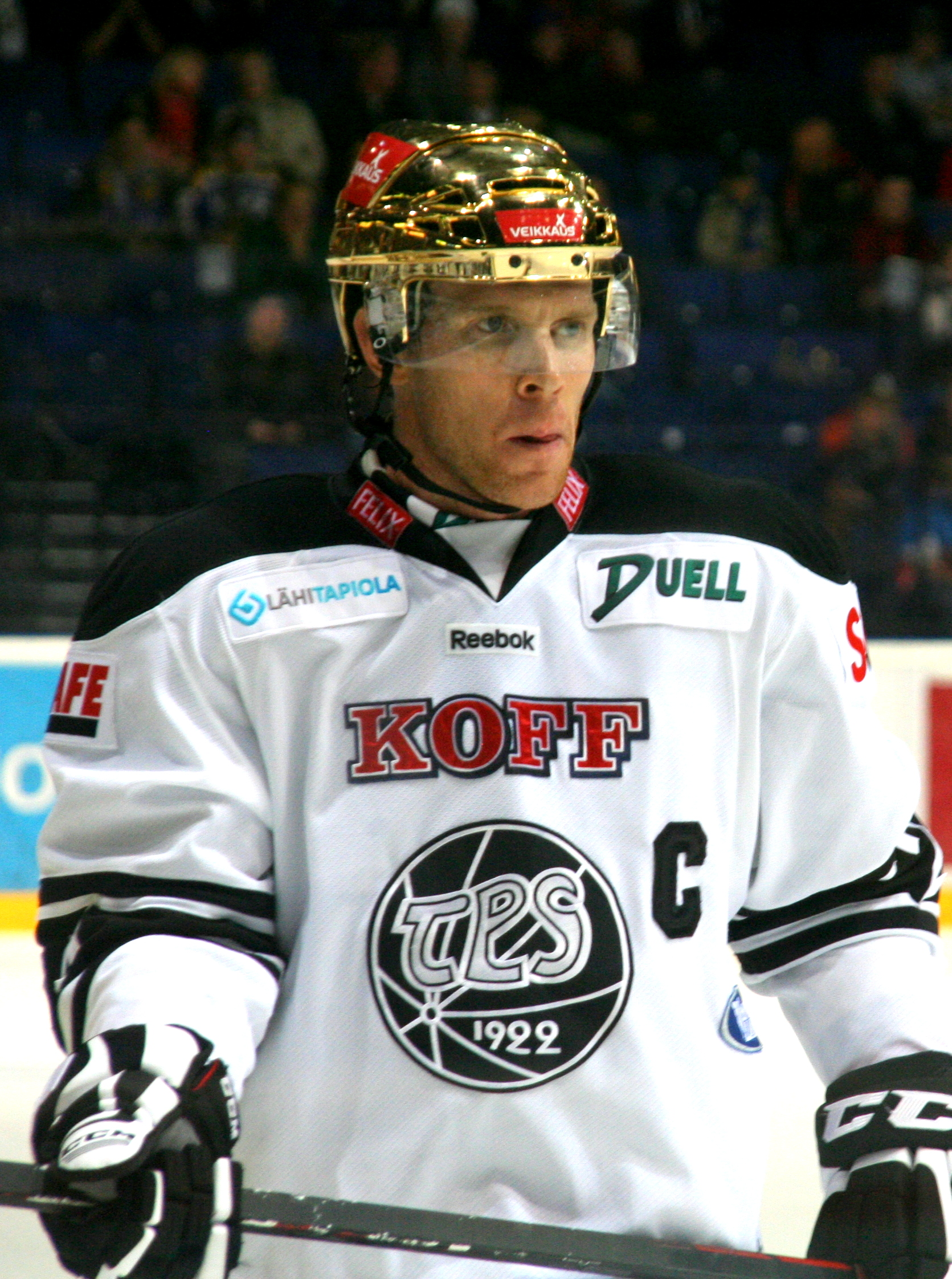 Ice Hockey Team Turun Palloseura's Attacker #24 C Brian Willsie